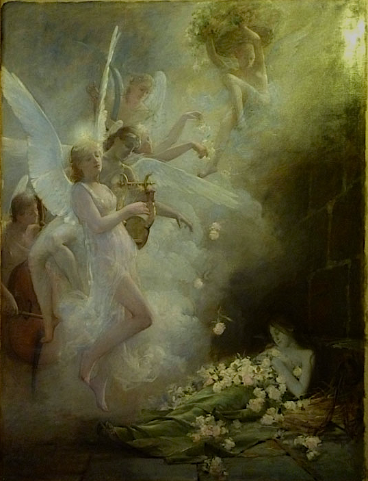 Le Dernier Sommeil, oil on canvas by François-Maurice Lard, in musée des beaux-arts de Mirande, 148 x 113 cm.